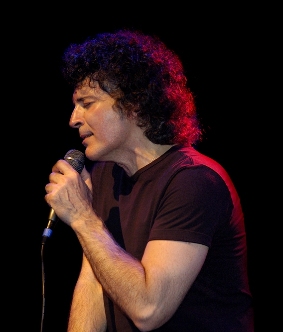 Cropped and mirrored version of Image:Gino vannelli a'dam 2005.jpg